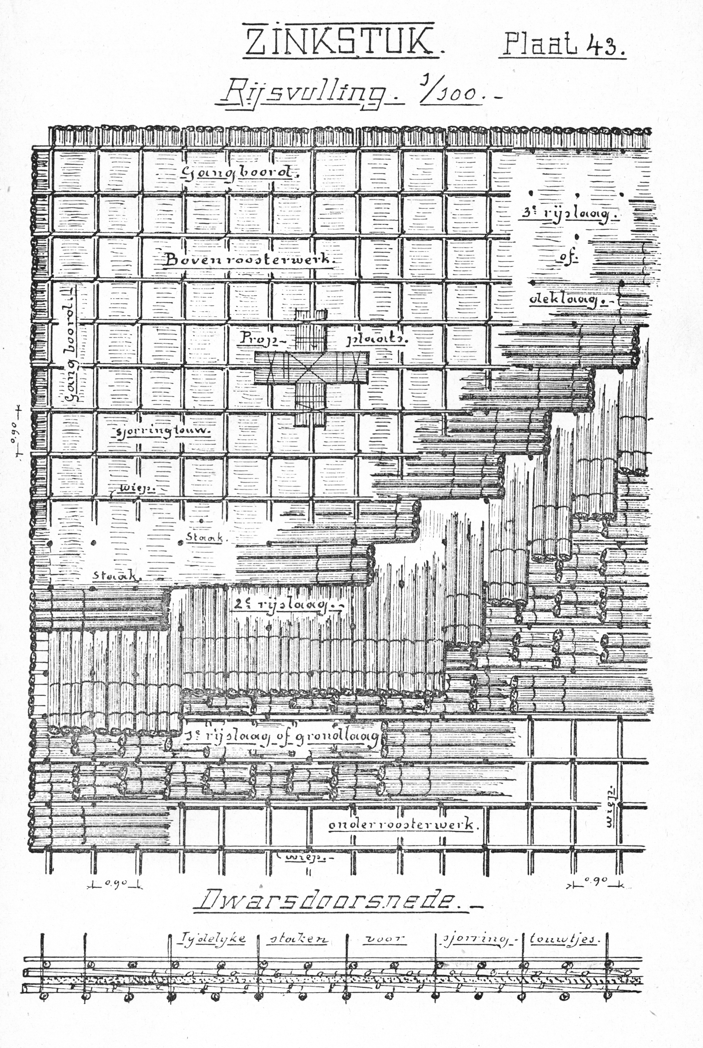 Drawing of a classical mattress made out of willow wood for bed protection of watercourses